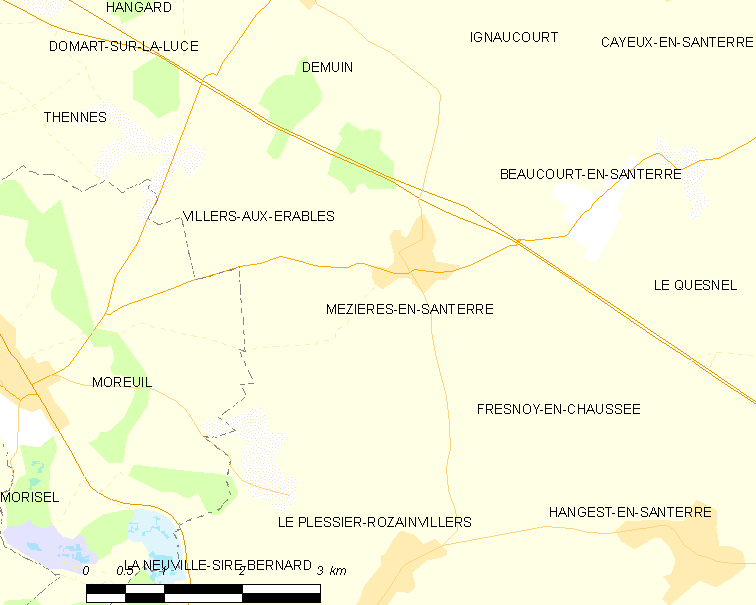 Map of French municipality Mézières-en-Santerre